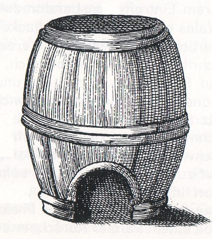 Furrier's tools